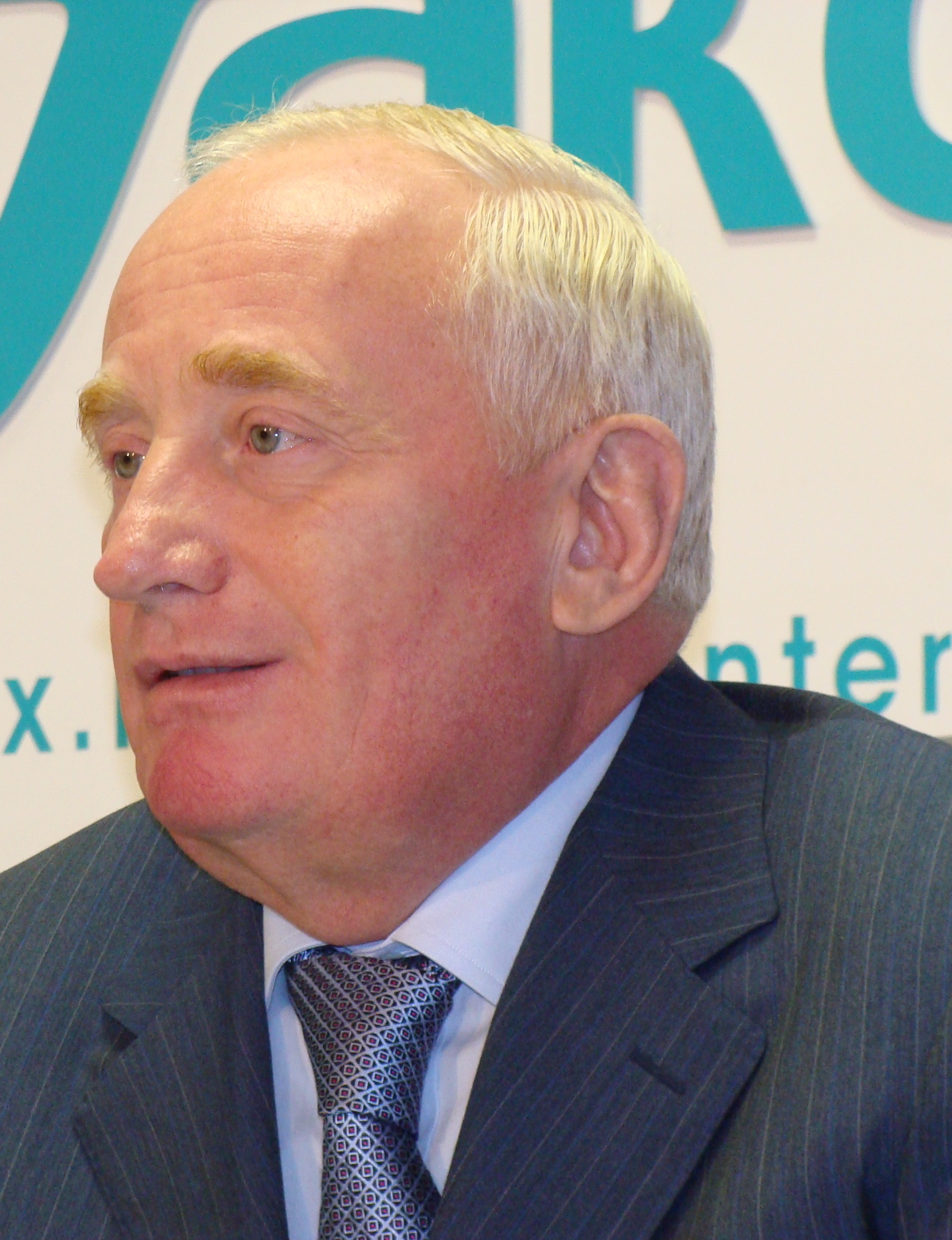 Tomsk governor Victor Kress on press-conference at Interfax-Siberia press-centre in Tomsk.